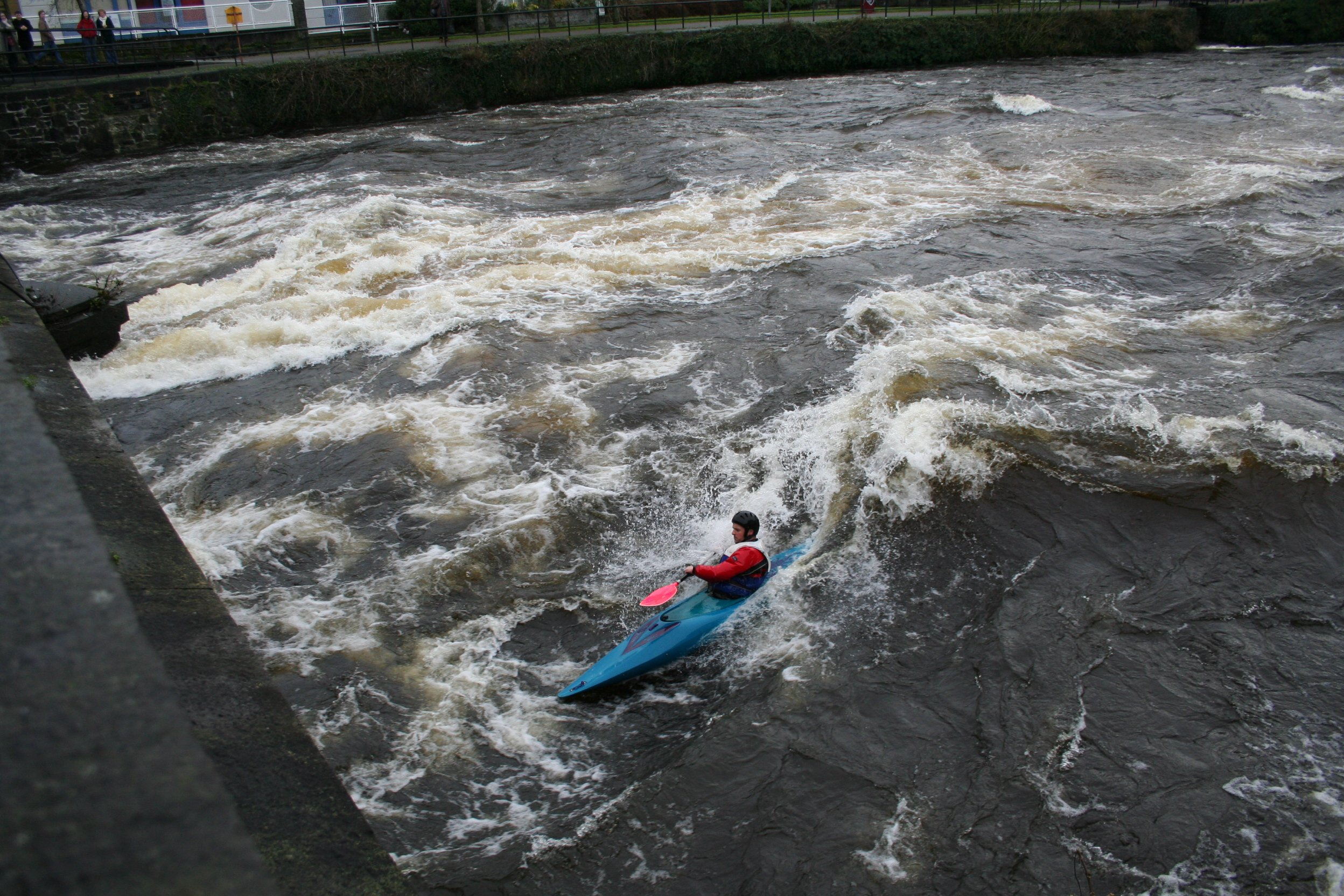 Galway paddler Mark Bruzzi surfing O'Brien's wave on the Lower Corrib, December 2006. Taken by Kristy Harrison.